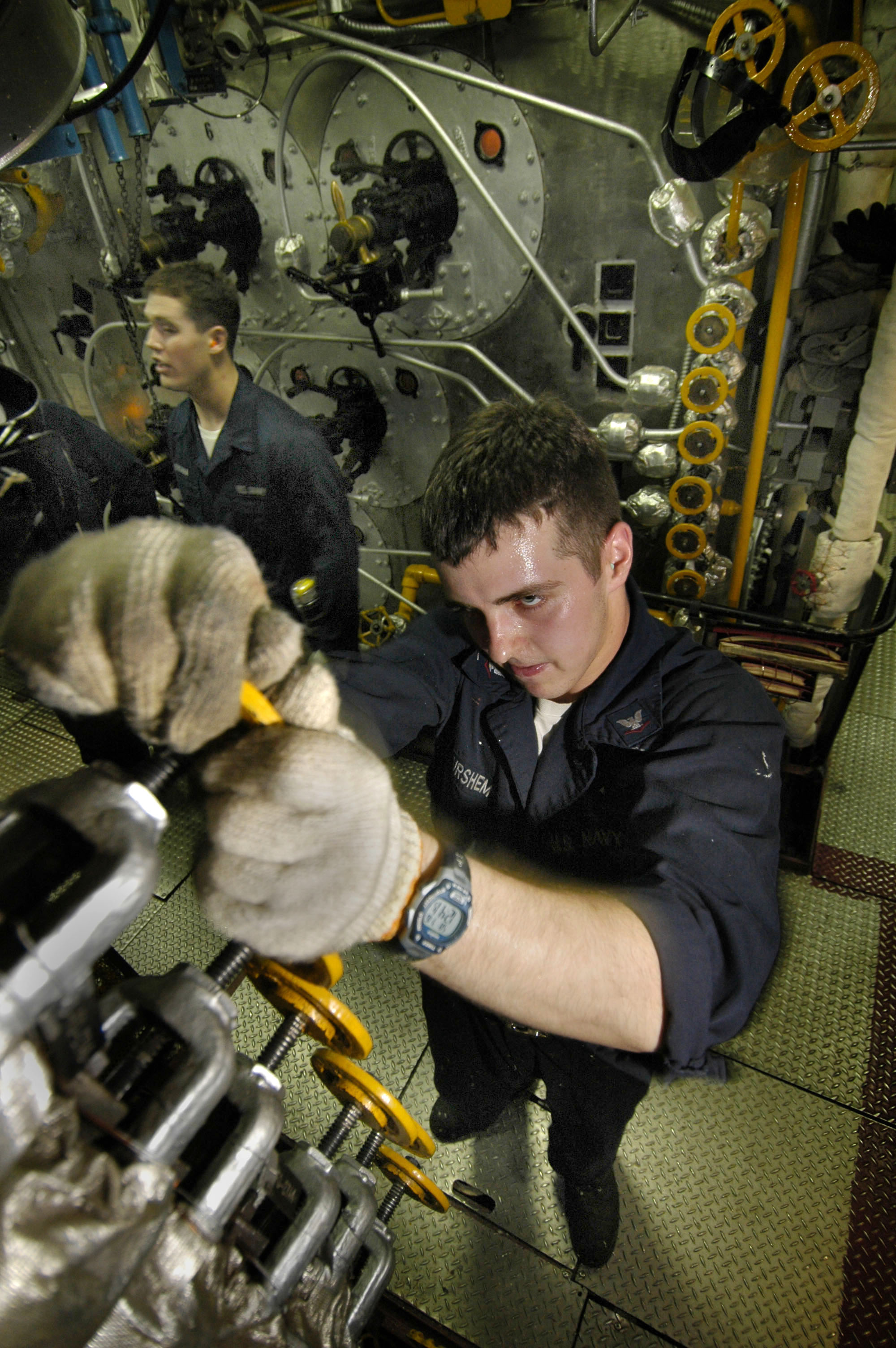 Western Pacific Ocean (July 16, 2005) - Machinist's Mate 3rd Class Daniel Burshem from Smith River, Calif., aligns an auxiliary steam valve aboard USS Kitty Hawk (CV 63). Currently under way in the 7th Fleet area of responsibility (AOR), Kitty Hawk demonstrates power projection and sea control as the U.S. Navy's only permanently forward-deployed aircraft operating from Yokosuka, Japan. U.S. Navy photo by Photographer's Mate Airman Joshua LeGrand (RELEASED)